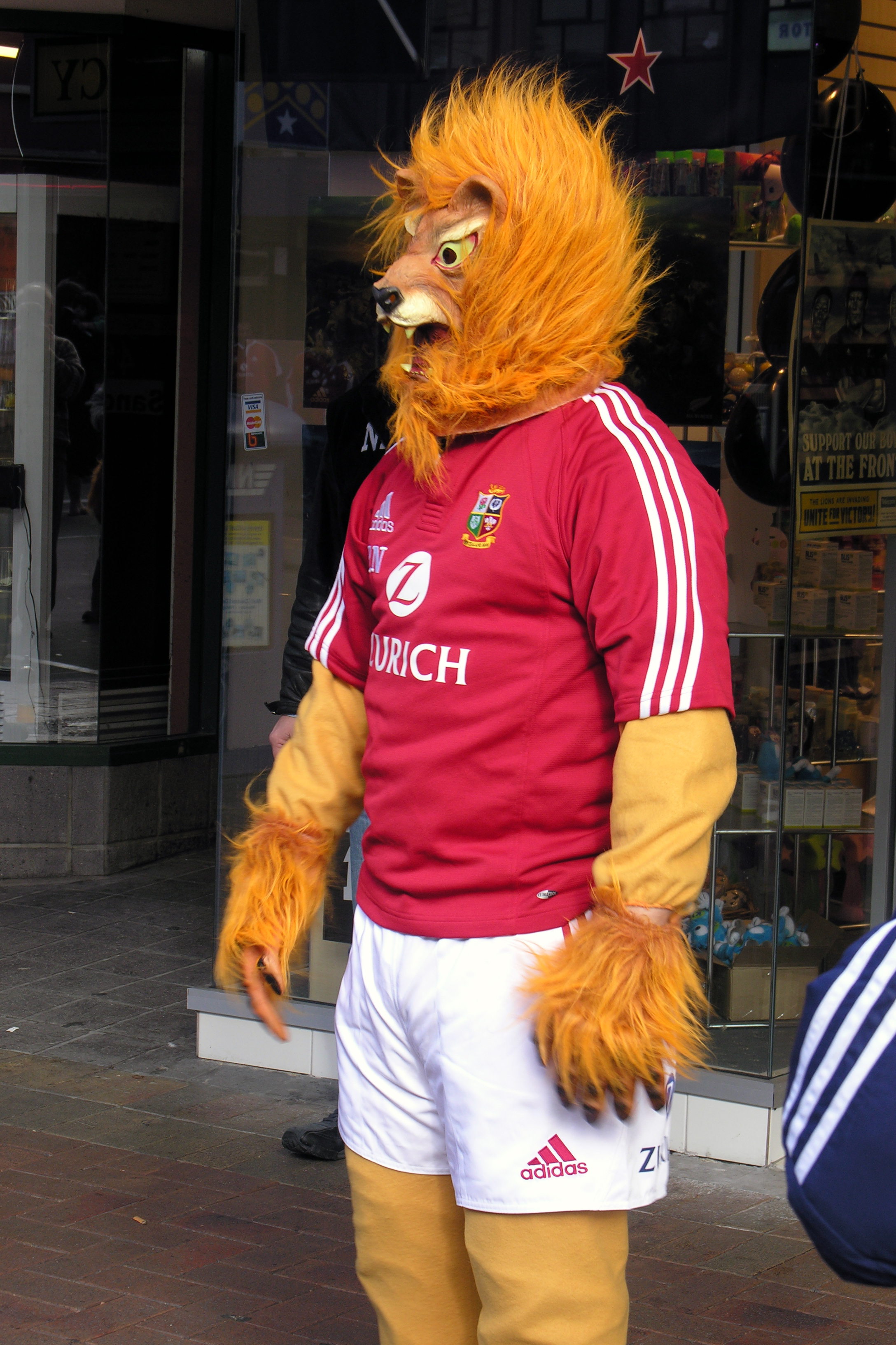 A British lion, Wellington, New Zealand 2 July 2005 British Lions 18-48 New Zealand 2nd Test in Westpac Stadium, Wellington